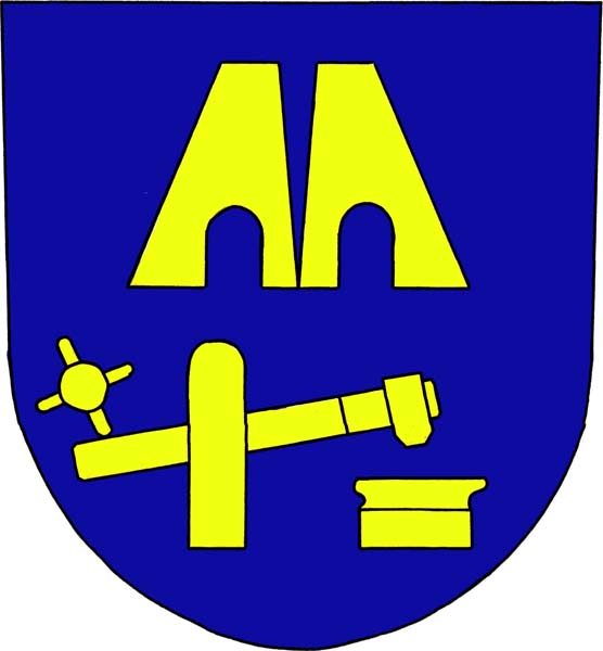 Municipal coat of arms of Klabava village, Rokycany District, Czech Republic.